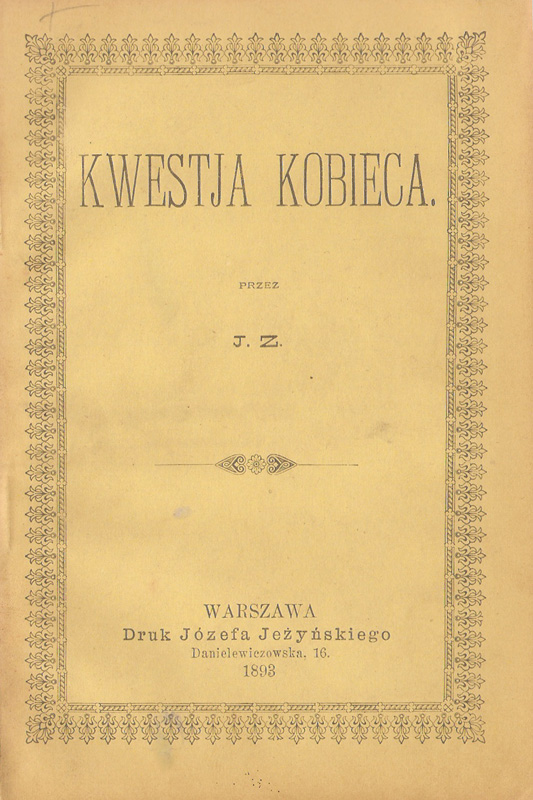 Front cover of Józef Zieliński's pamphlet "Kwestja kobieca"